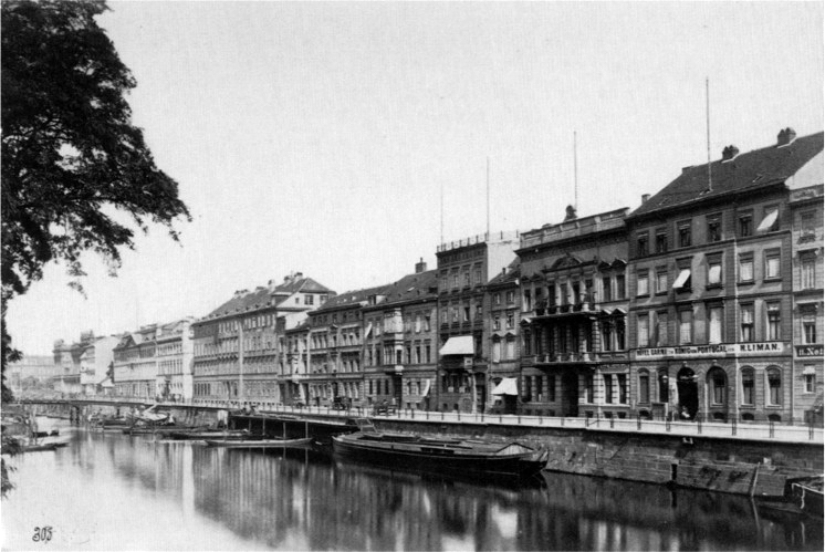 The Burgstrasse vis-a-vis the Berlin Schloß